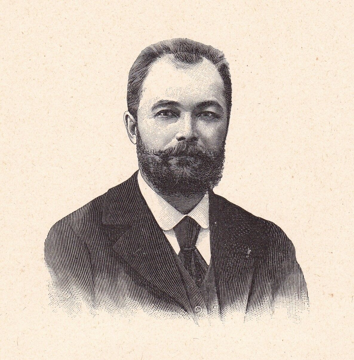 French writer and playwright François de Curel (1854-1928)